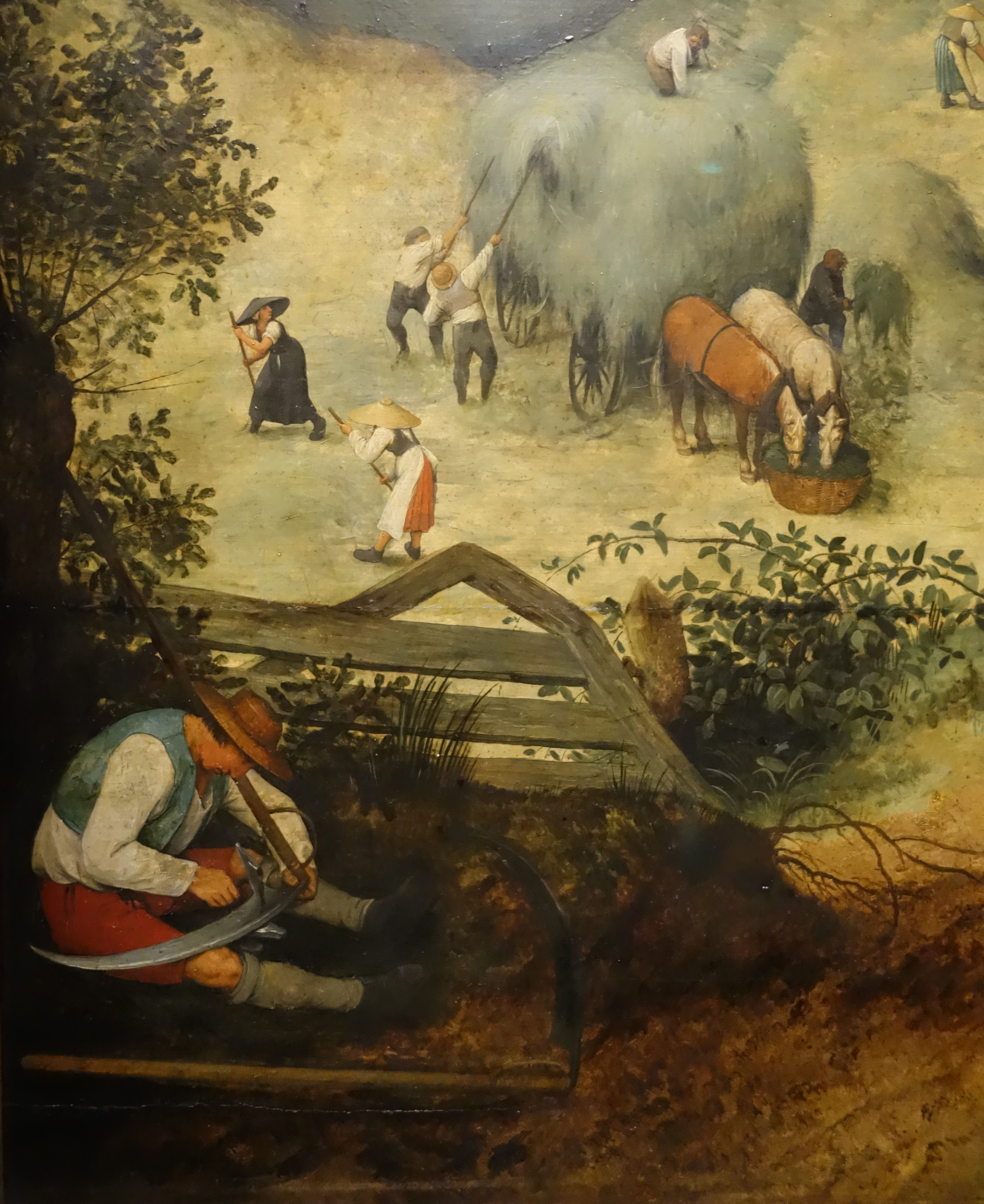 Pieter Bruegel the Elder, The haymaking, 1565 - detail